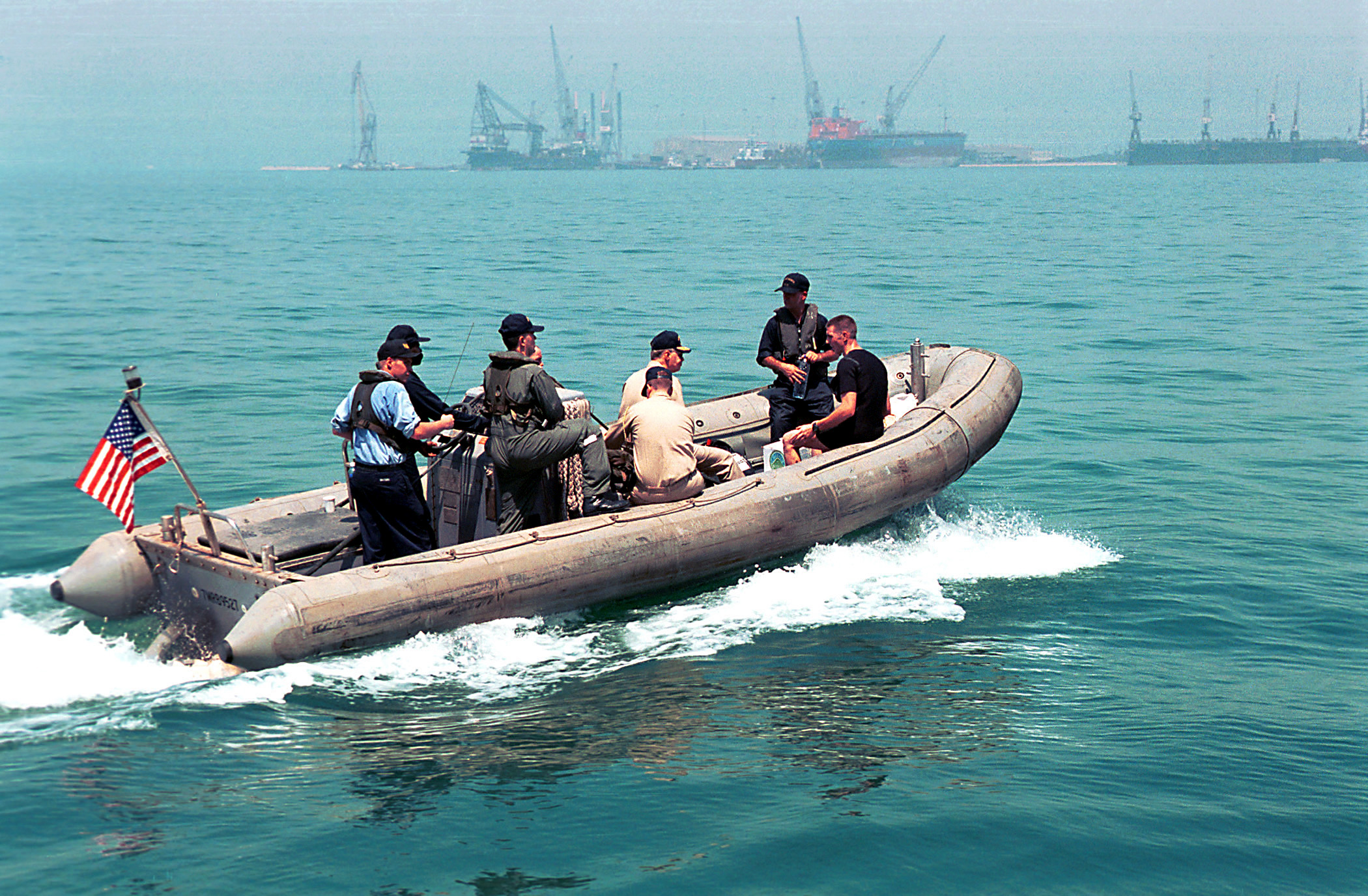 Sailors from the aircraft carrier USS George Washington (CVN 73) leave the ship in a Rigid Hull Inflatable Boat on Aug. 24, 2000, to assist in the recovery of Gulf Air Flight 072, which crashed into the Persian Gulf off the northern coast of Bahrain yesterday. The George Washington, home ported in Norfolk, Va., is in Bahrain on a routine port visit to the gulf island nation. The George Washington Battle Group is deployed to the Persian Gulf in support of Operation Southern Watch, which is the U.S. and coalition enforcement of the no-fly-zone over Southern Iraq.